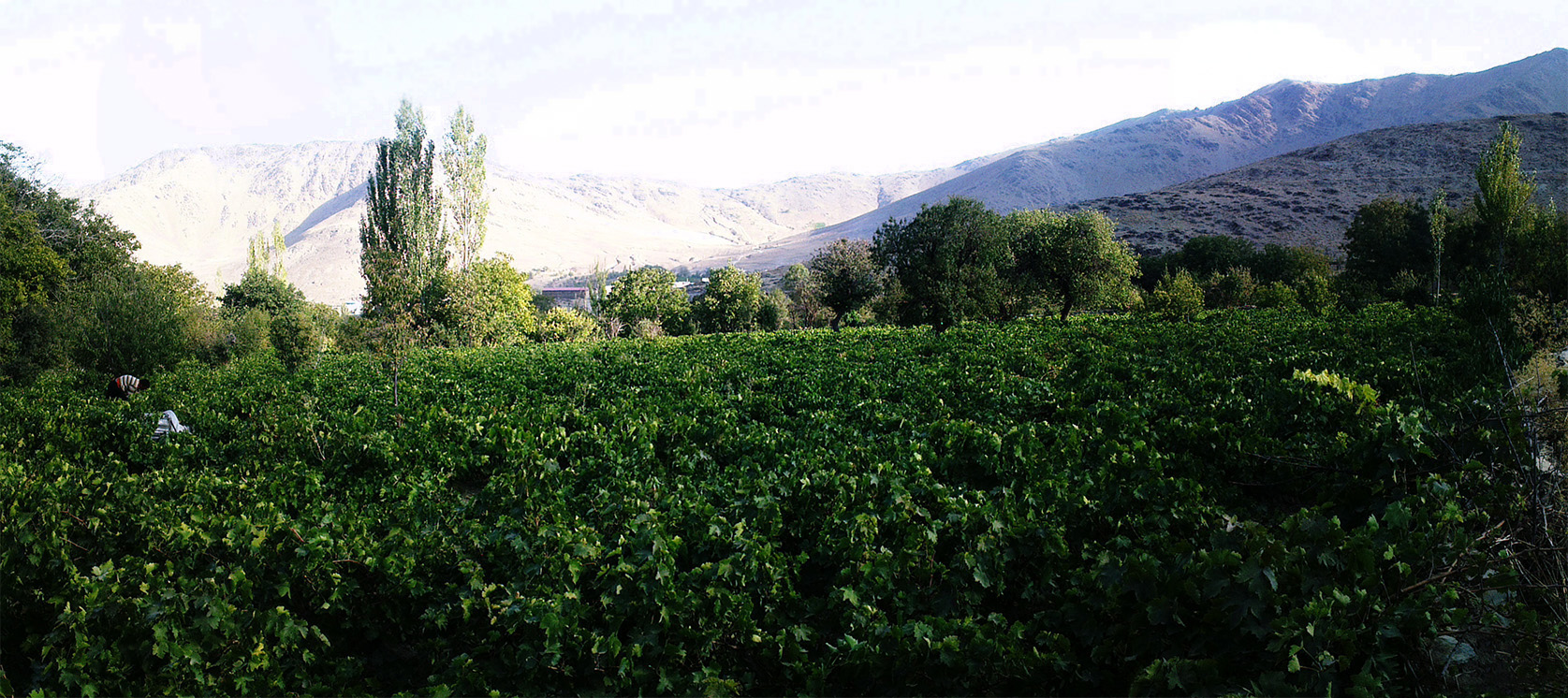 A vineyard in Hazaveh village, Arak County.